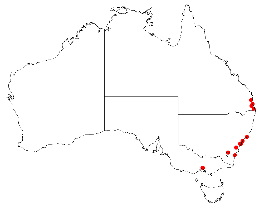 Indigofera decora downloaded 18 November 2018 from Australasian Virtual Herbarium